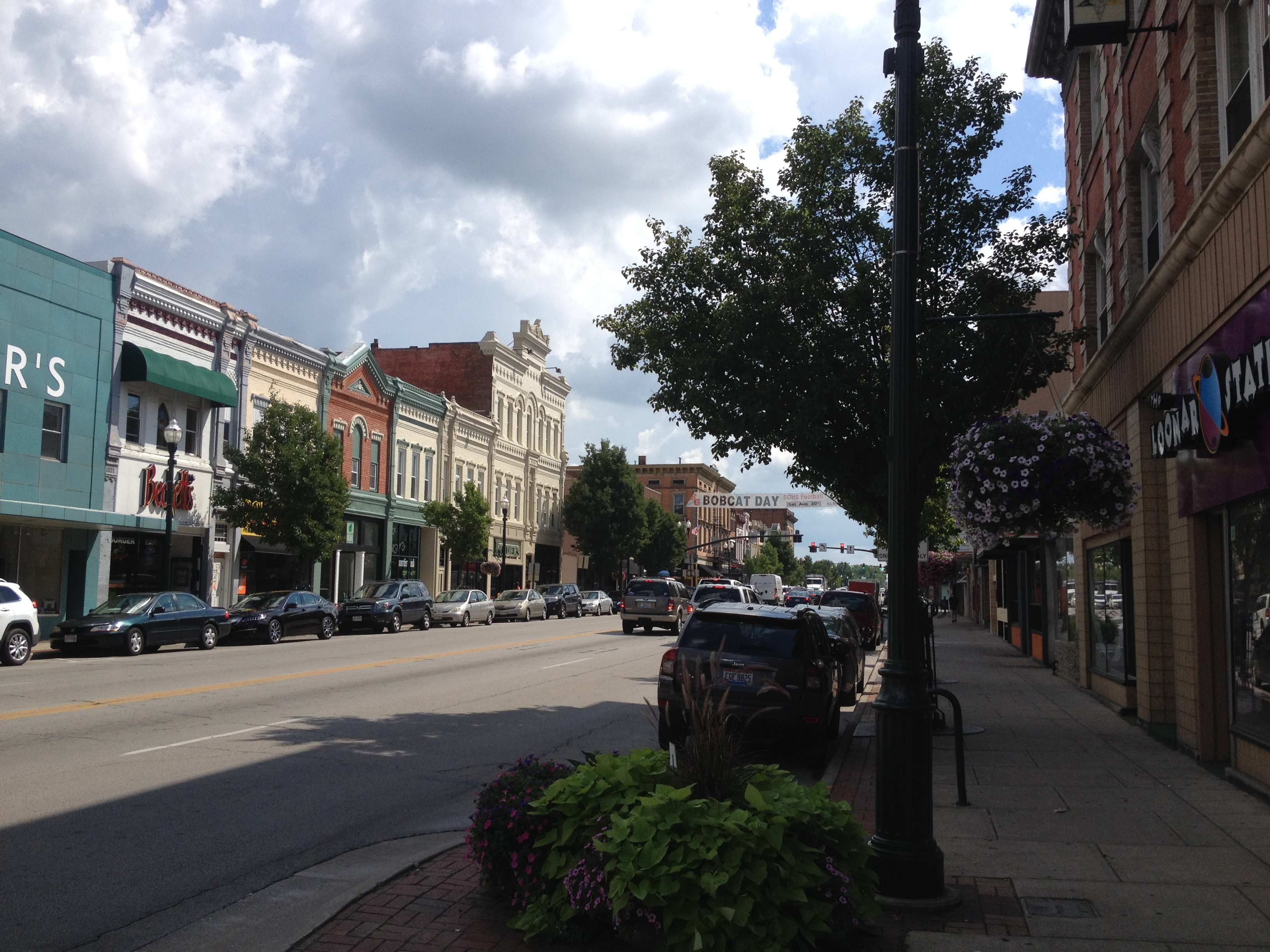 Downtown Bowling Green, Ohio in August 2016